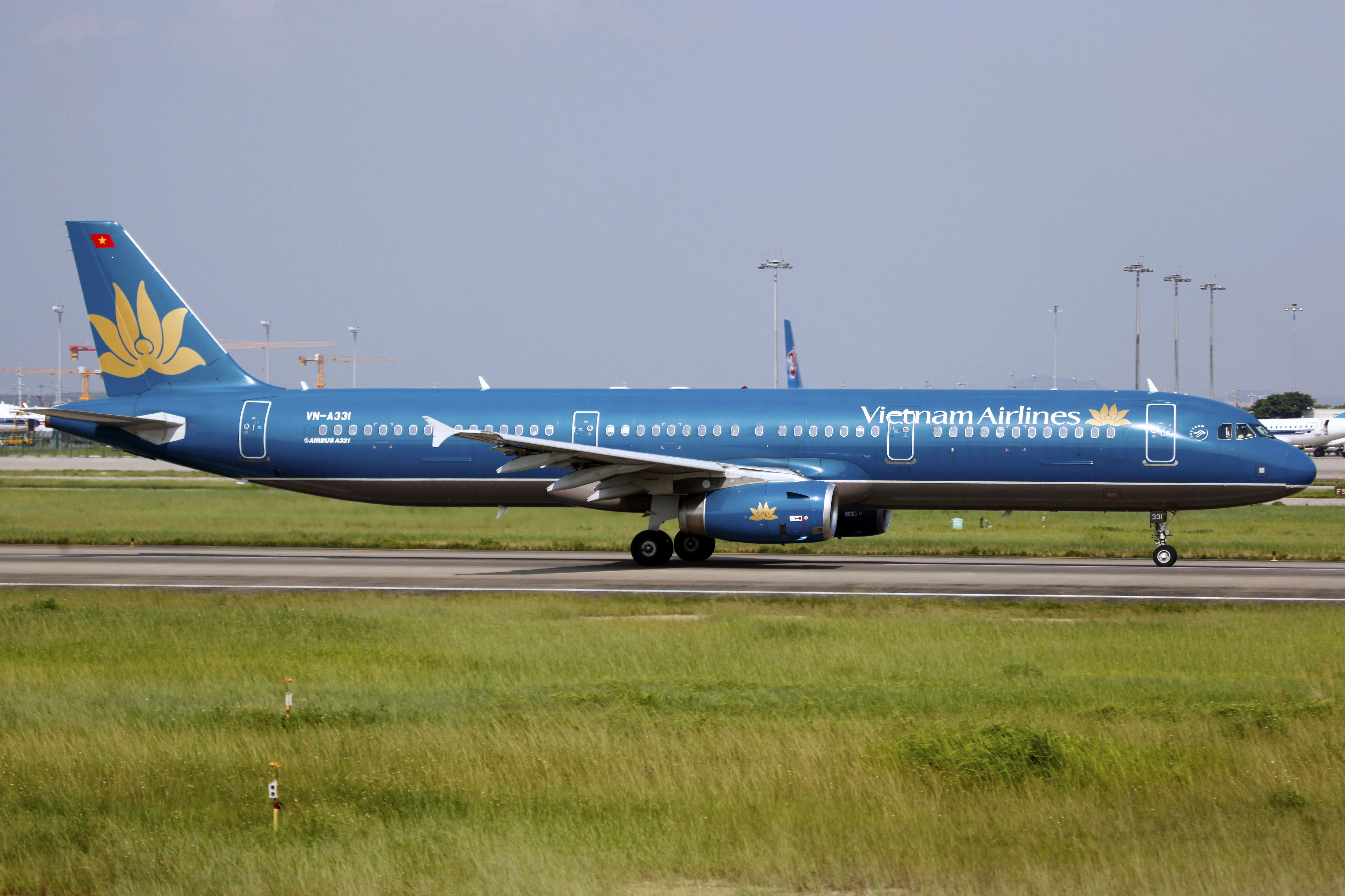 VN-A331 | Vietnam Airlines | Airbus A321-231 | Guangzhou Baiyun International Airport [CAN]